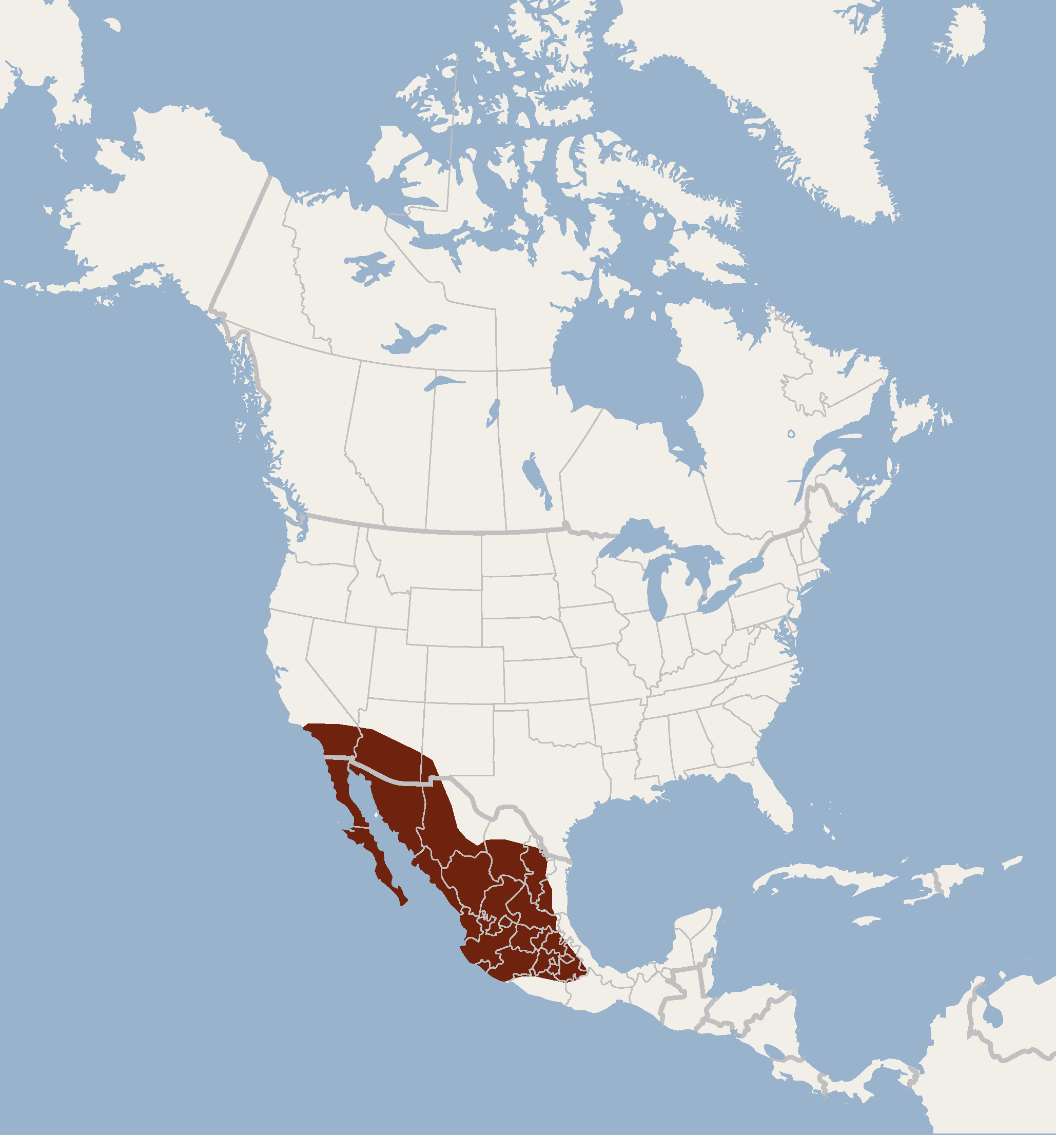 Geographical distribution of Lasiurus xanthinus according to Kays & Wilson, 2009